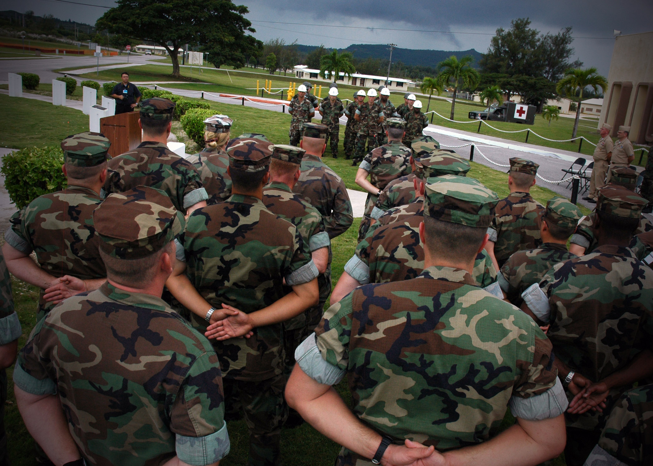 GUAM (Oct. 12, 2007) - U.S. Naval Mobile Construction Battalion (NMCB) 4 prepares to turn over Camp Covington to NMCB-1, top, on board Naval Base Guam. NMCB-1 is deployed to several locations in the Middle East, Afghanistan, and Micronesia, providing responsive military construction support to U.S. military operations. U.S. Navy photo by Mass Communication Specialist 2nd Class Demetrius Kennon (RELEASED)